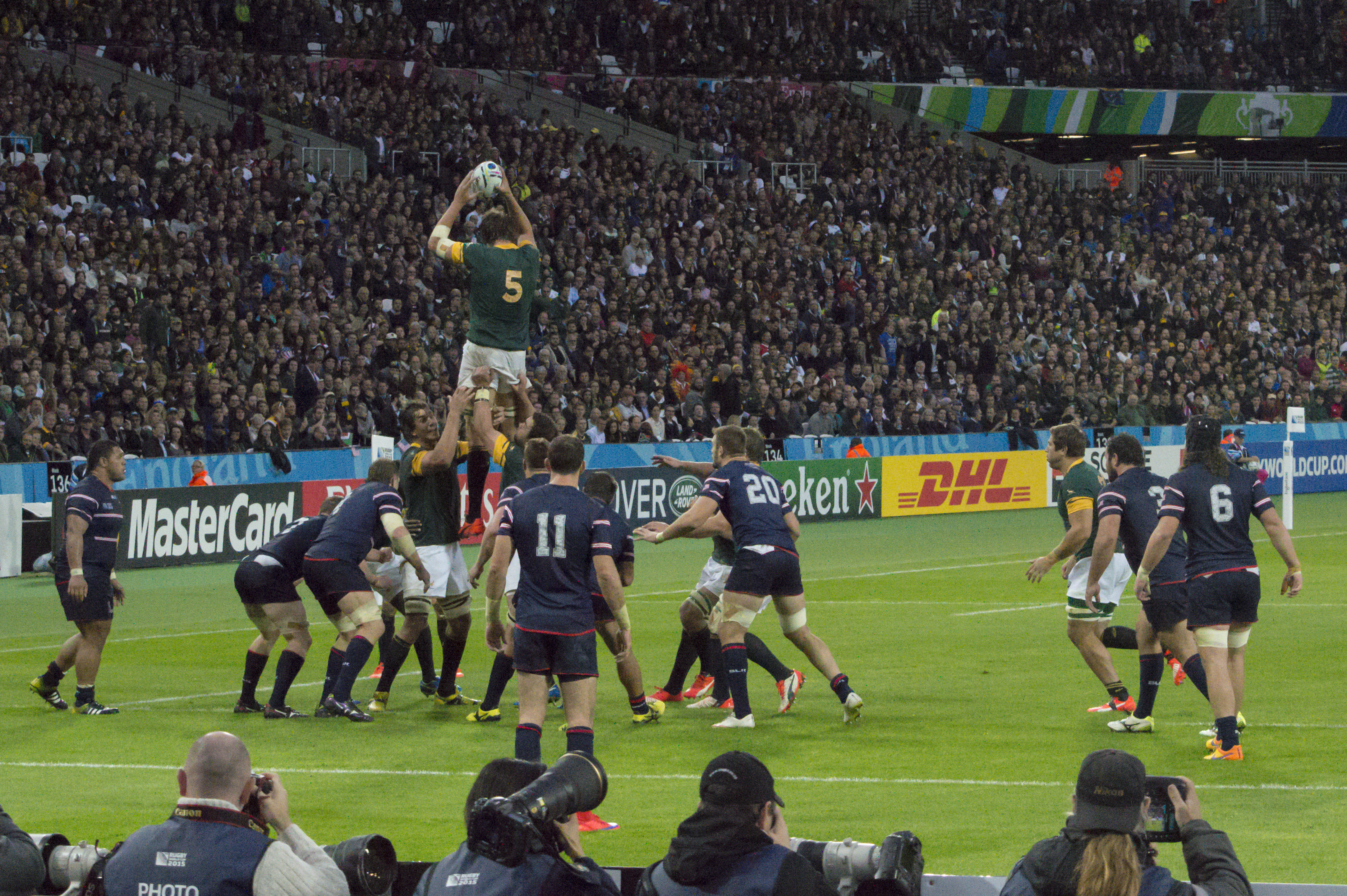 South Africa vs. USA